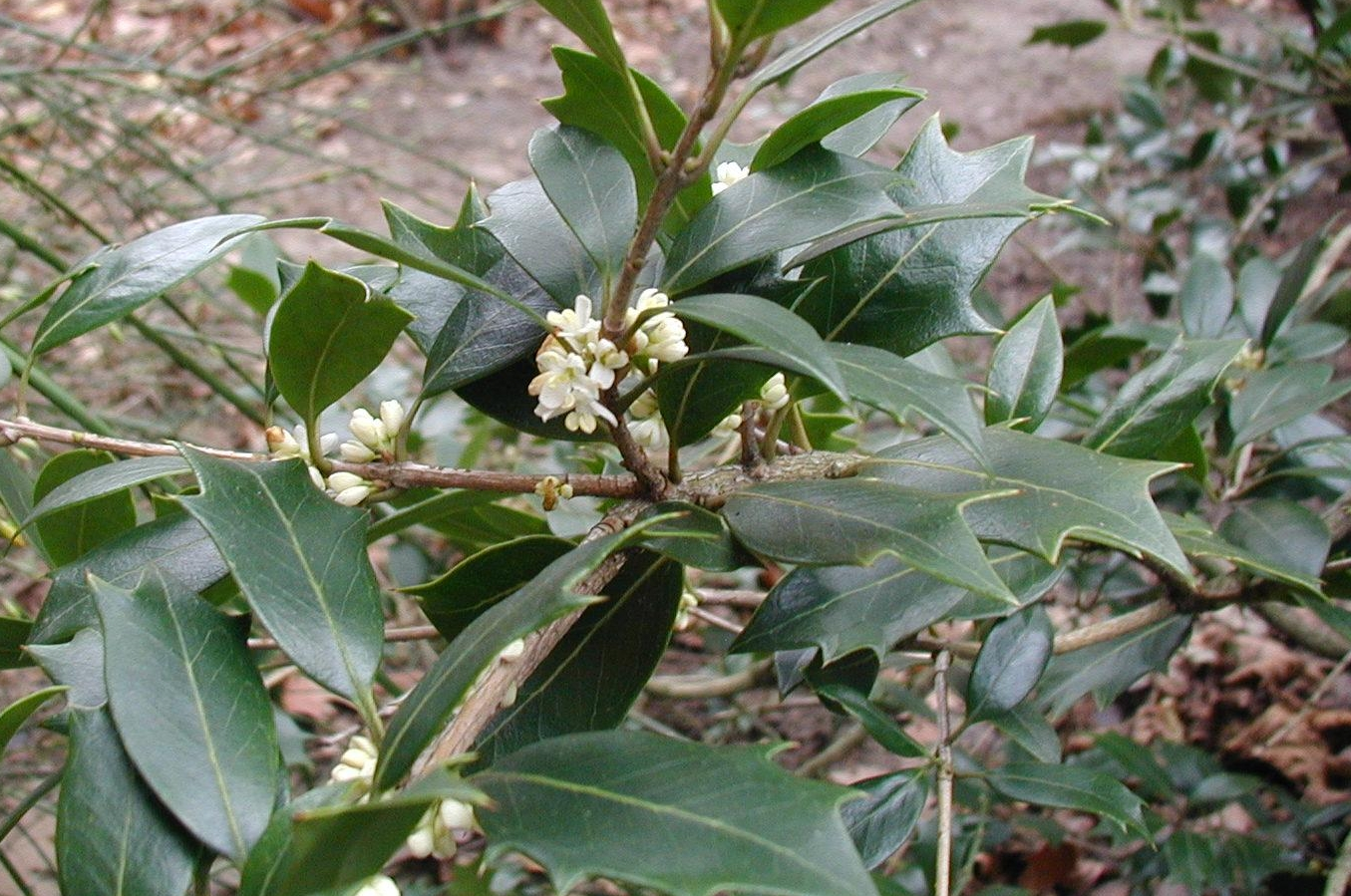 Osmanthus heterophyllus: foliage and flowers.